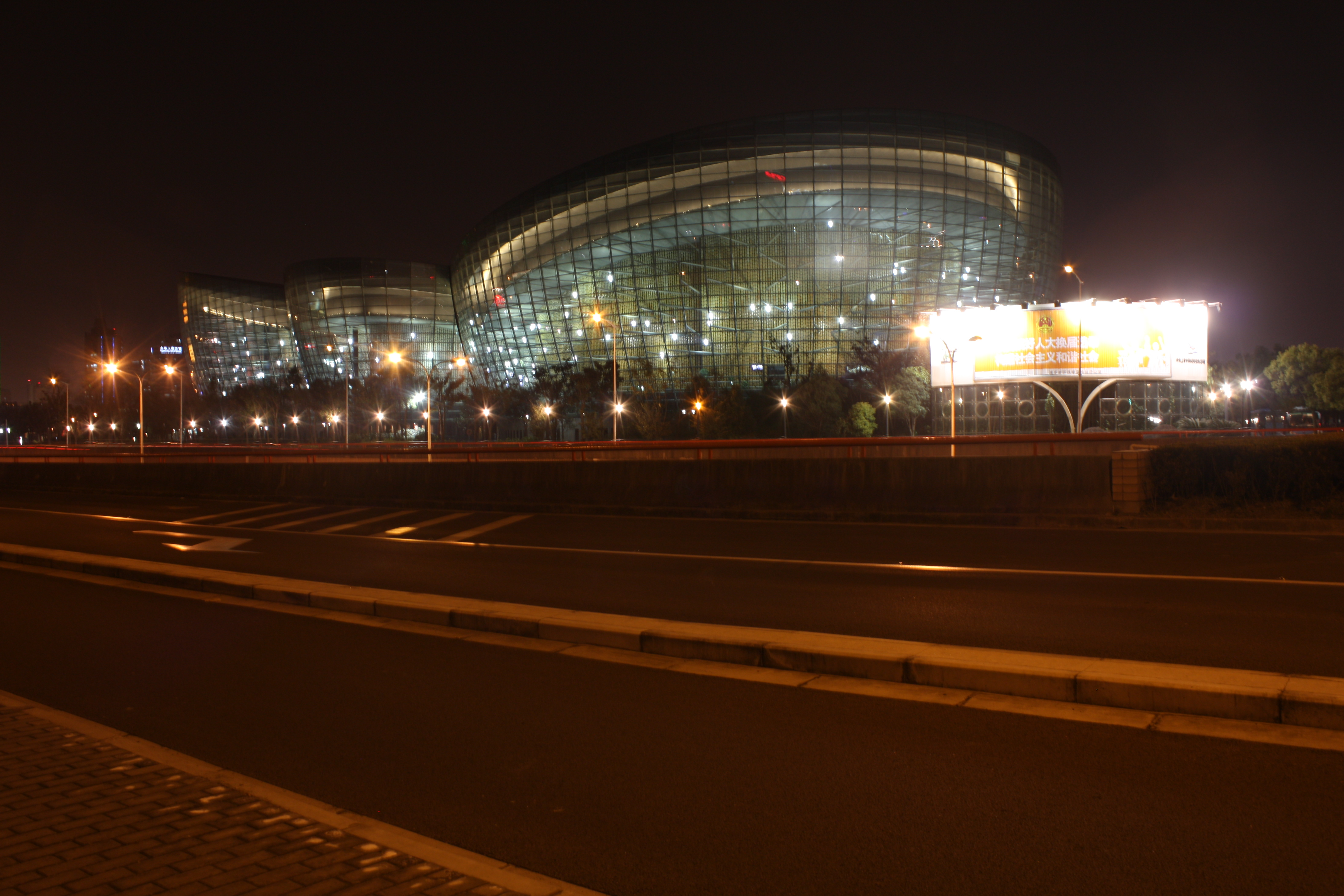 Shanghai Oriental Art Center